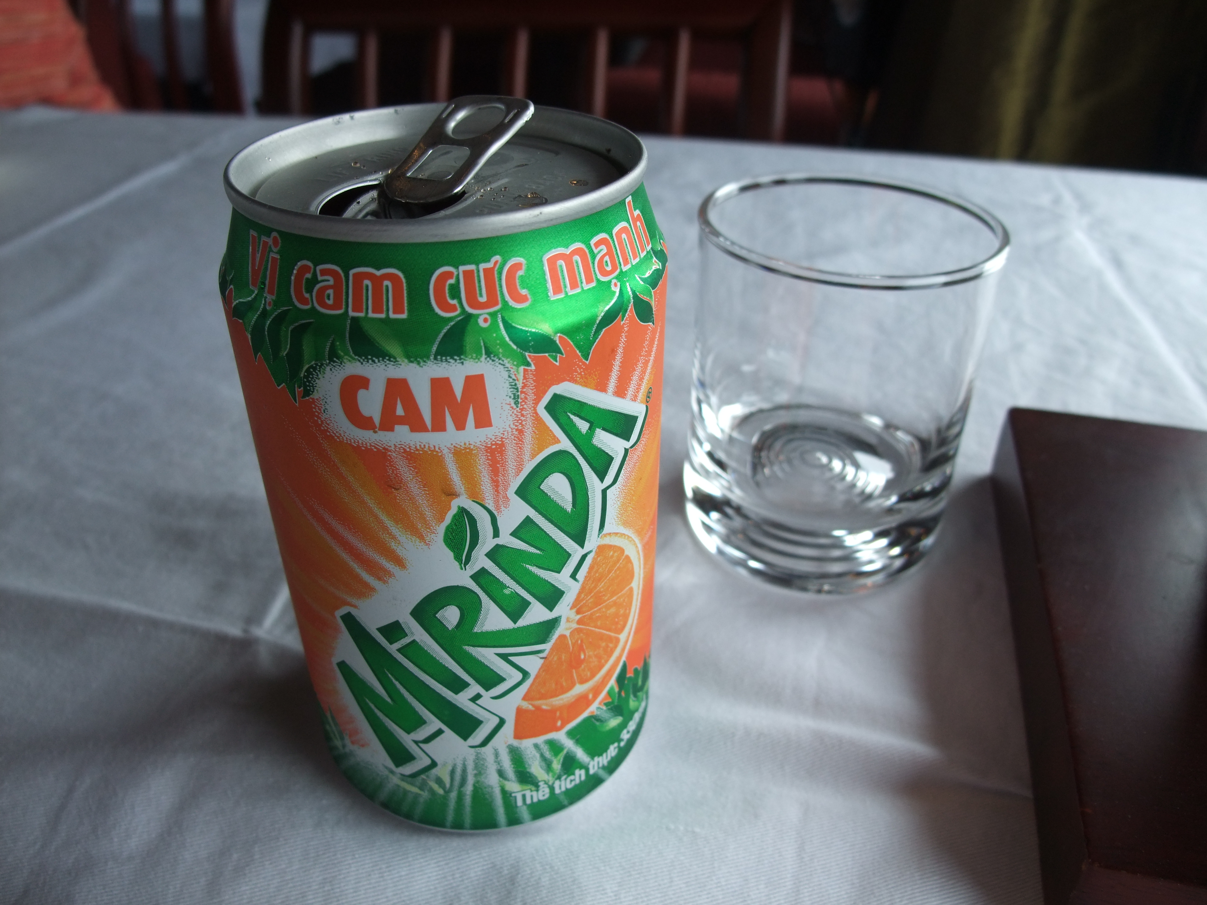 vietnamese can of mirinda